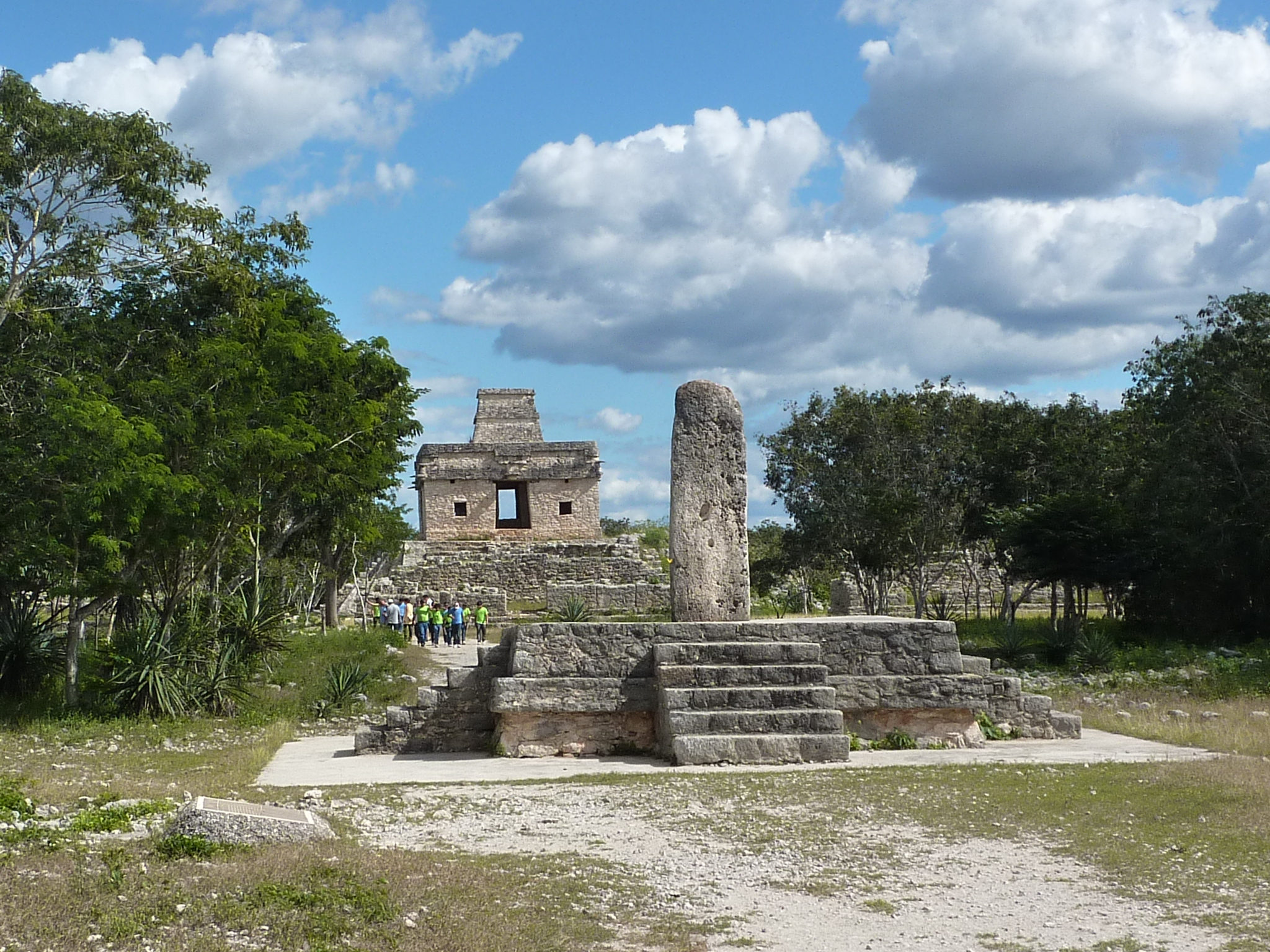 Temple of the Seven Dolls in Dzibilchaltún, with a stele on a square platform (Structure 12) in front of it, seen from the west.